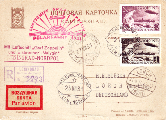 Flown Soviet ppc carried on the DLZ127 "Graf Zeppelin" and delivered to the Russian icebreaker "Malygin" on the 1931 "Polar Flight". Source: The Cooper Collection of Zeppelin Postal History (the Image uploader's collection) Photograph by uploader.